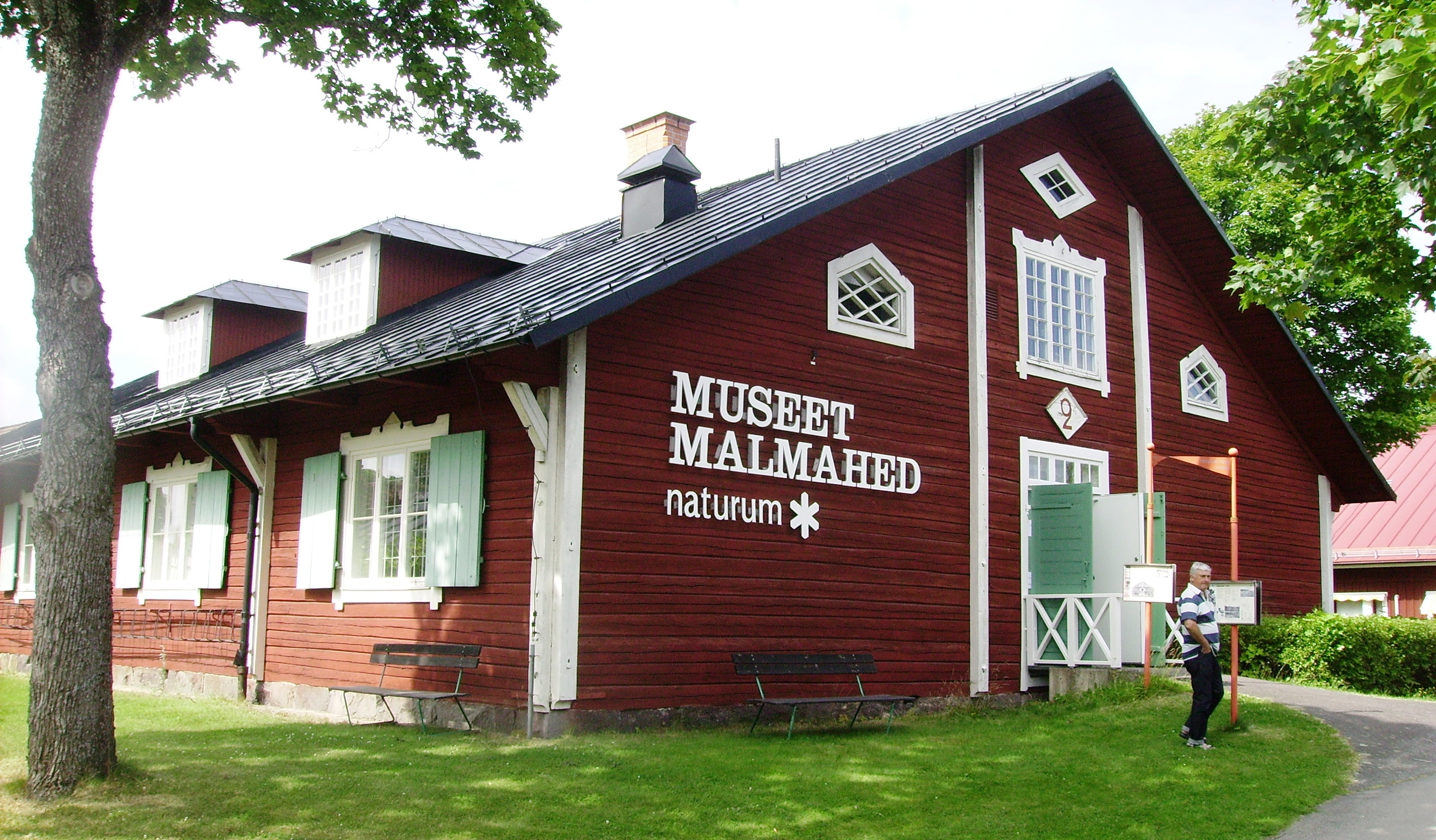 Picture of museum Malmahed in Malmköping, Södermanland, Sweden.